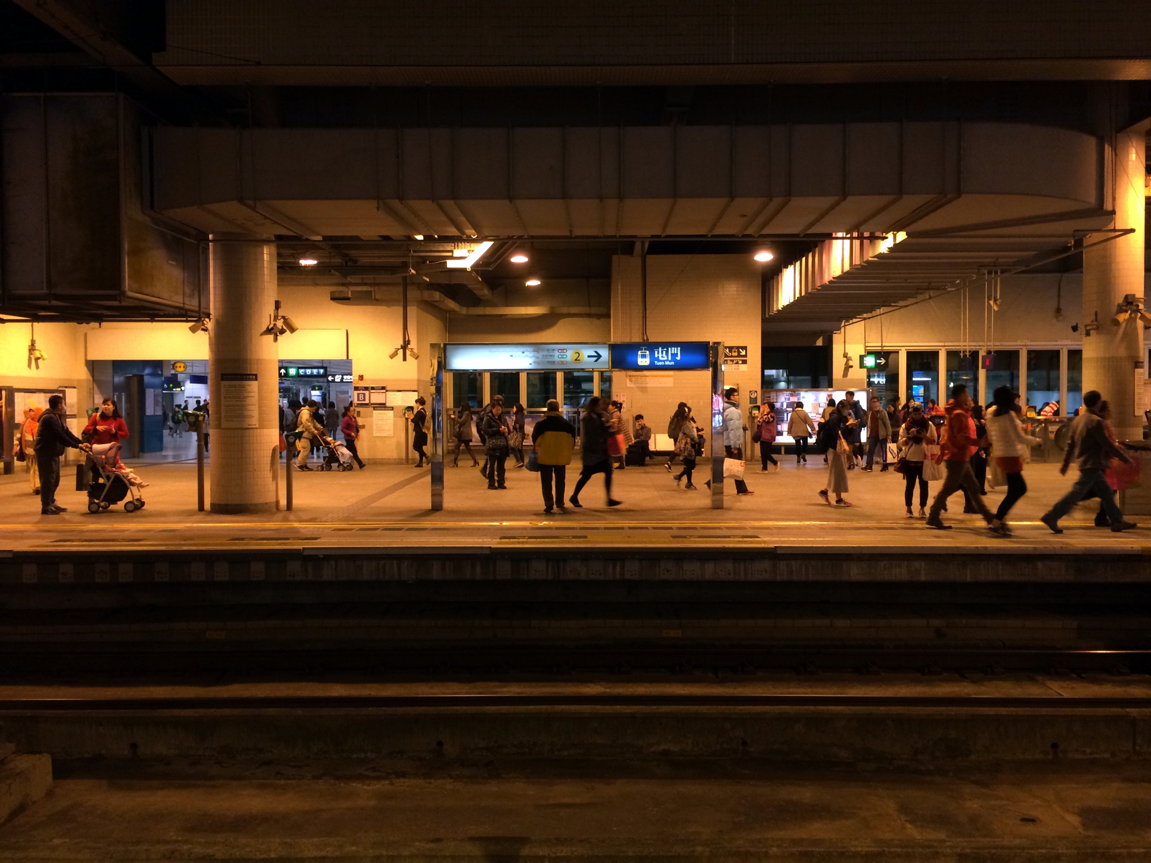 Tuen Mun LRT Station Platform